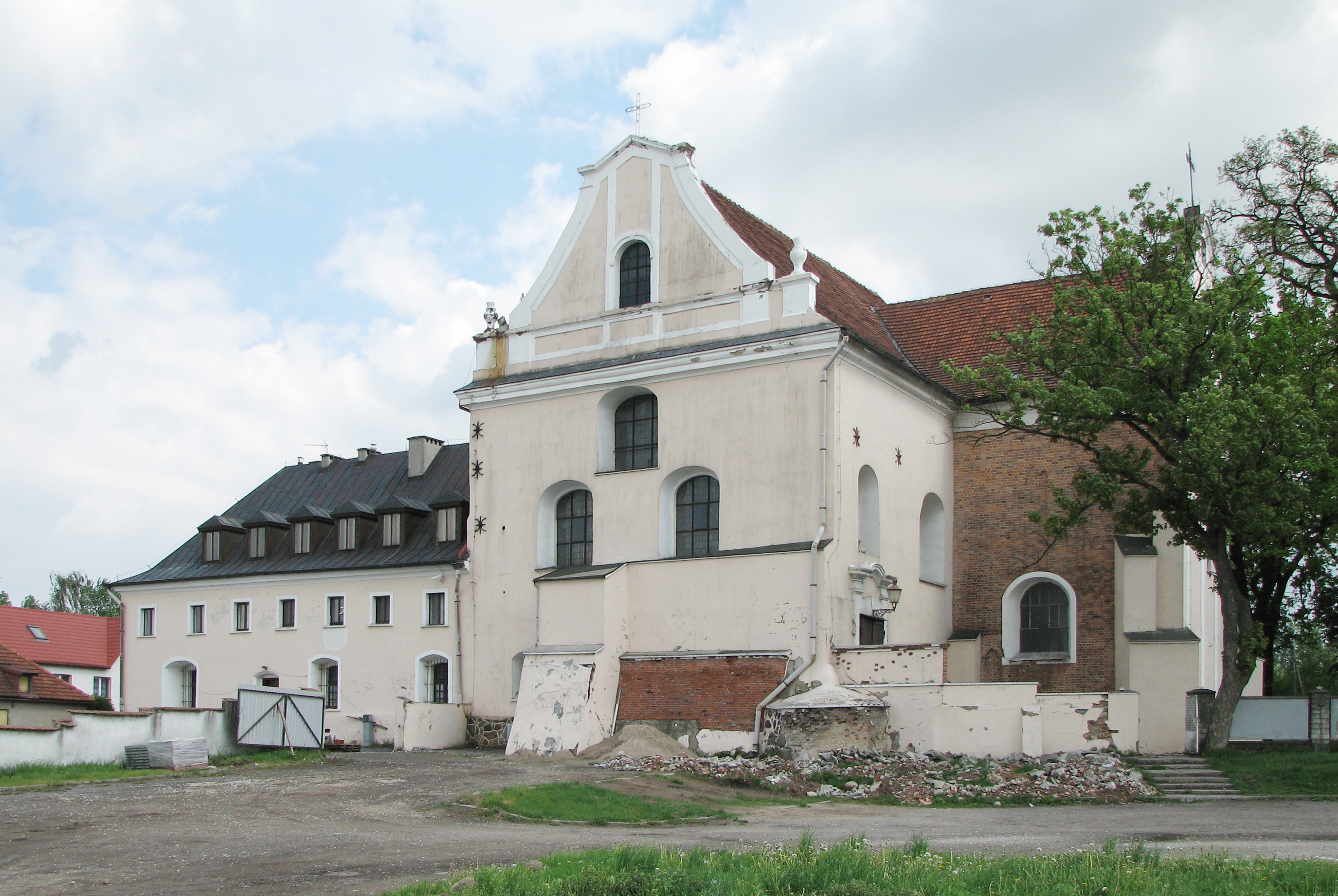 Franciscan Monastery of St. Bonaventure in Pakość, Poland